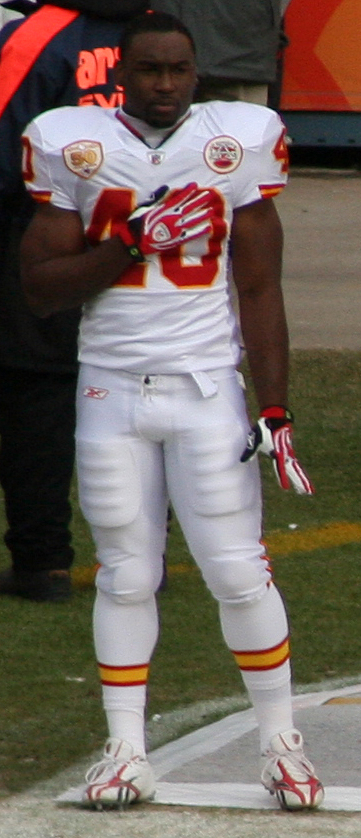 Javarris Williams, a player on the Kansas City Chiefs American football team.